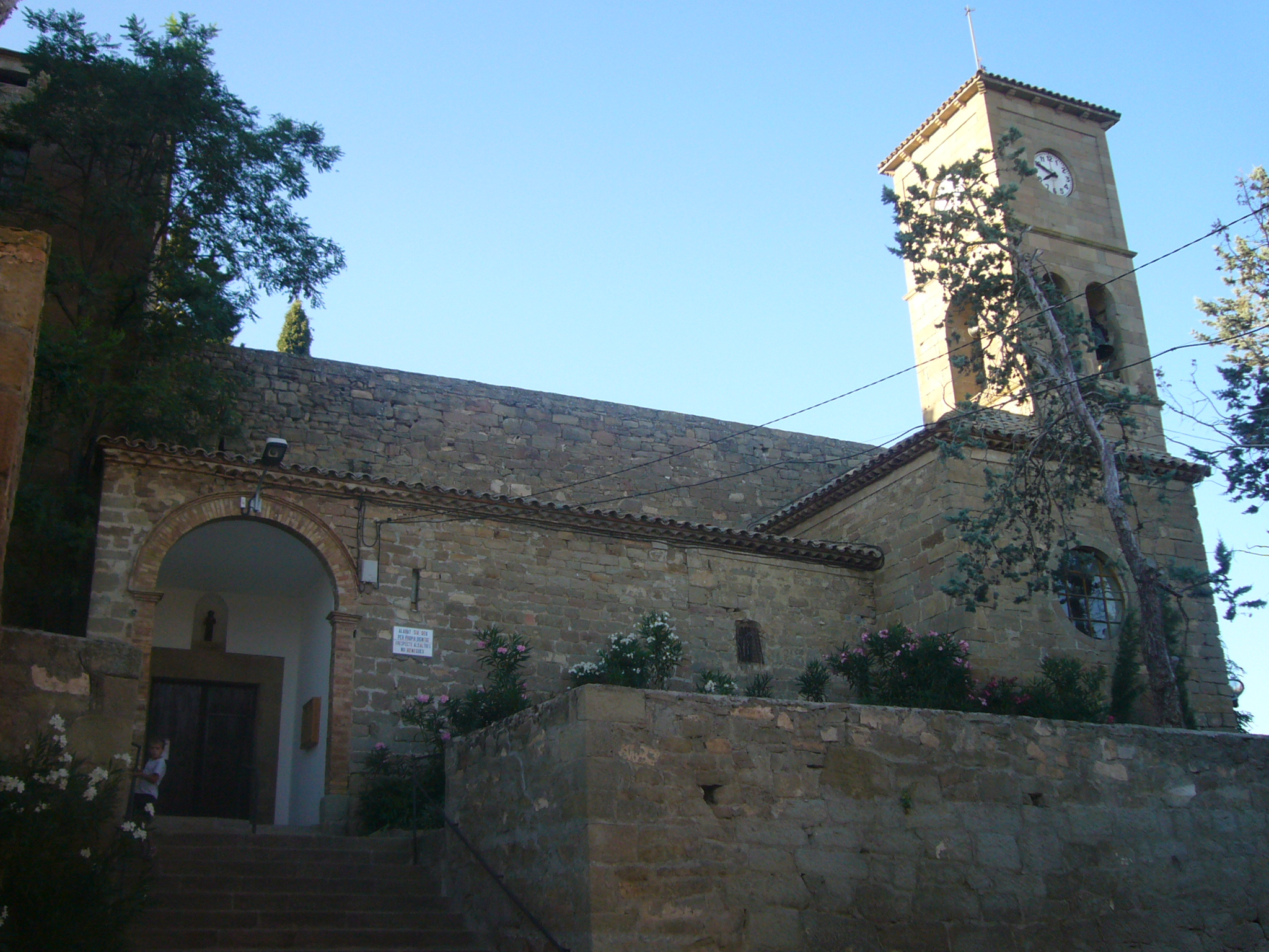 Montclar d'Urgell-Church of Sant Jaume